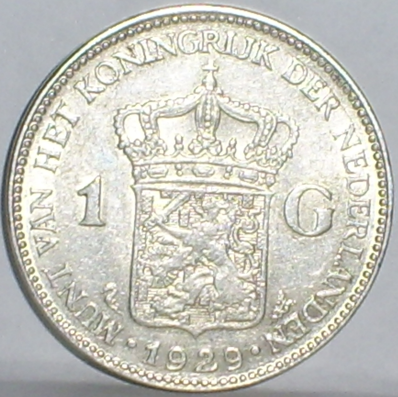 Zilveren gulden uit 1929. Bevat 7,2 gram puur zilver.